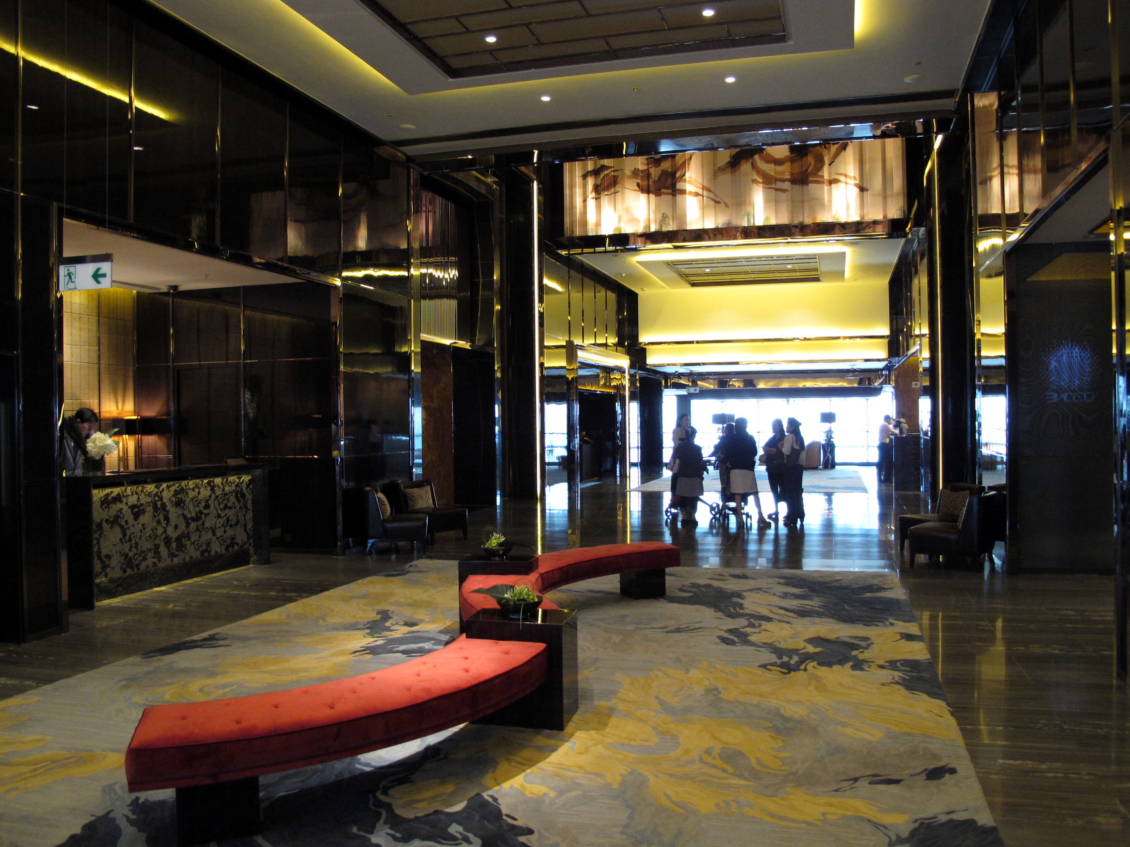 The Ritz-Carlton Hong Kong Level 103 Lobby